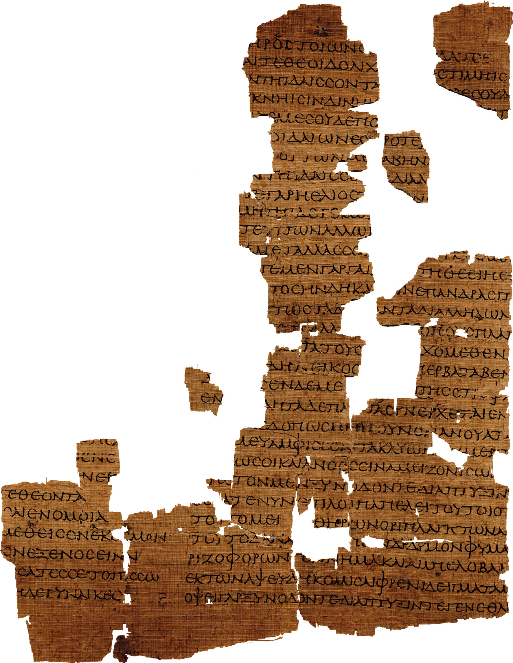 Papyrus of Empedocles, Physika I 262–300. P. Strasb. gr. Inv. 1665−1666.